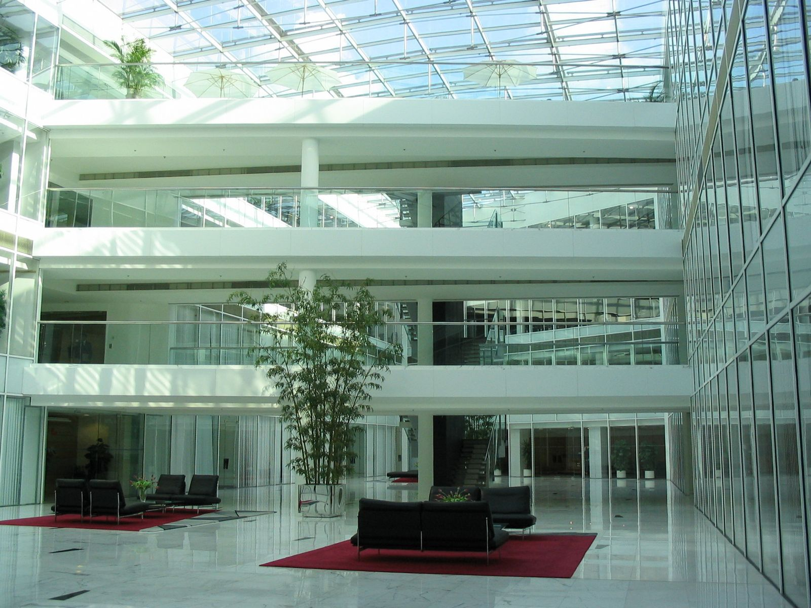 又一城-寫字樓 Office Zone of Festival Walk